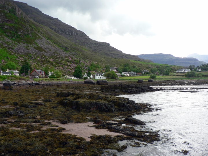 Torridon village seen from Loch Torridon shore, Scotland.